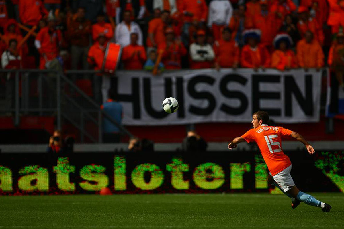 SEPTEMBER 5, 2009 - Football : Rafael van der Vaart of Netherlands in action during the international friendly match between Netherlands and Japan at FC Twente Stadium, Enschede, Netherlands. (Photo by Tsutomu Takasu)